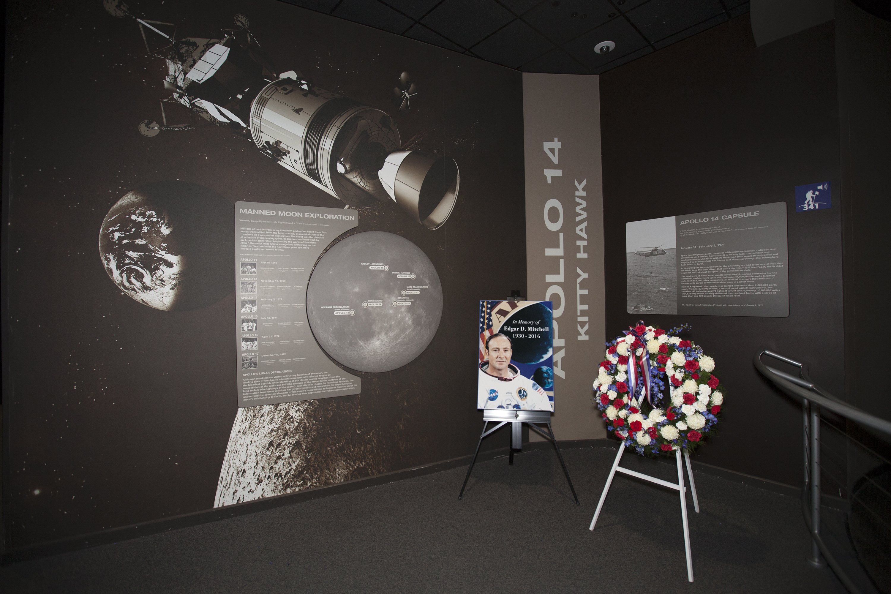 In the Apollo Saturn V Center at NASA's Kennedy Space Center in Florida, a memorial wreath was placed in the Treasures of Apollo exhibit following a ceremony to honor the memory of former NASA astronaut Edgar Mitchell. One of 12 humans to walk on the moon, Mitchell died Feb. 4, 2016. Mitchell was Apollo 14's lunar module pilot who landed in the moon's Fra Mauro highlands on Feb. 5, 1971 with mission commander Alan Shepard while command module pilot Stuart Roosa remained in lunar orbit.